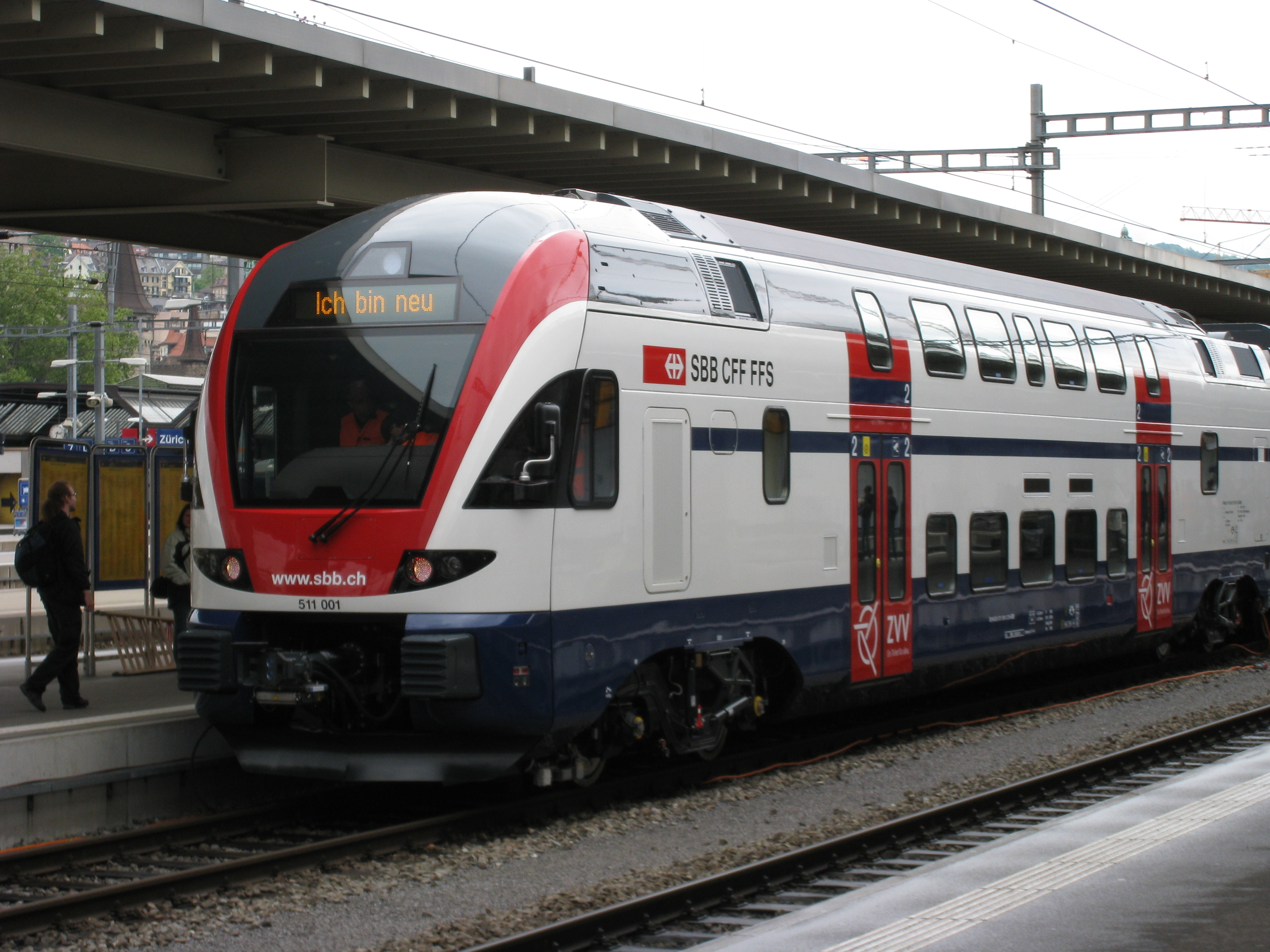 Brand new RABe 511 trainset of the Swiss Federal Railways at its first public presentation on 3 June 2010.